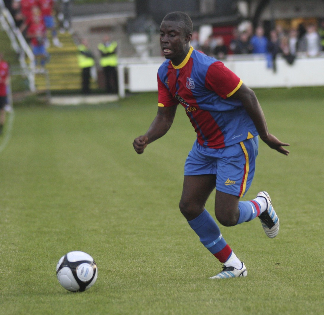 Wilfried Zaha playing for Crystal Palace in a pre-season friendly against Lewes, 20 July 2012